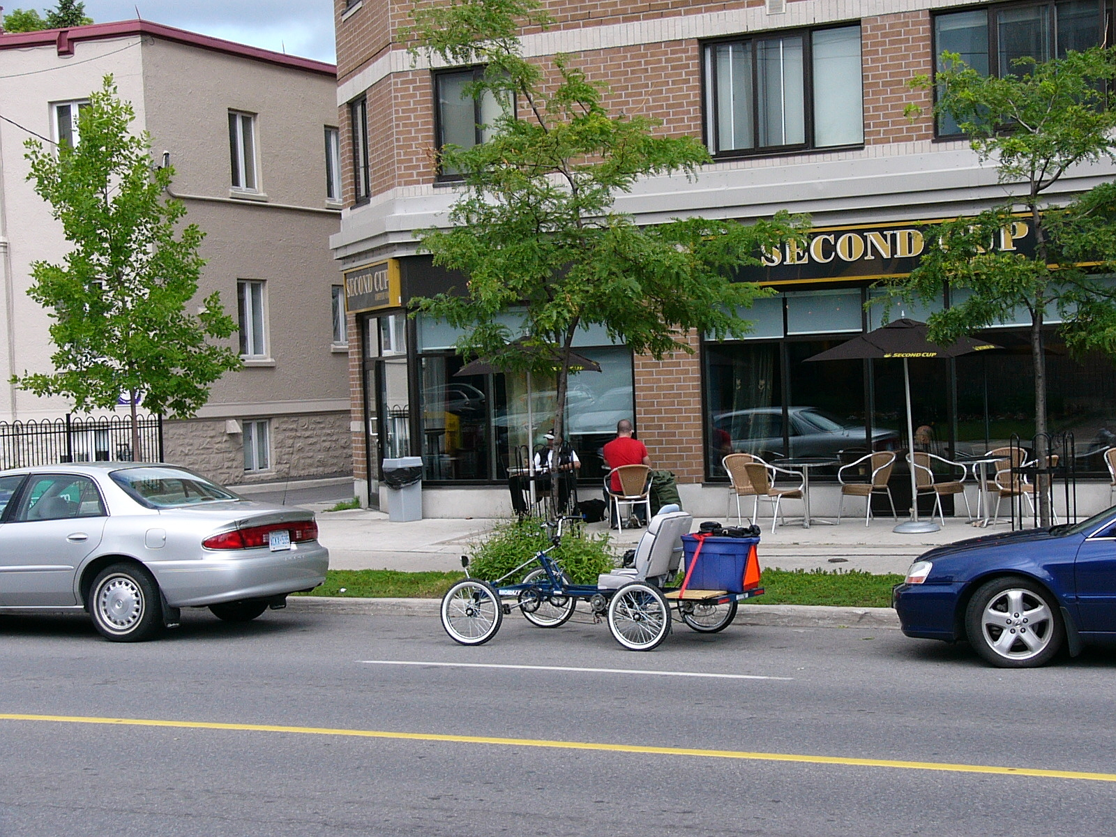 I took this photo of a Rhoades Car 4W2PCP quadracycle in Ottawa, Ontario on 15 July 2007